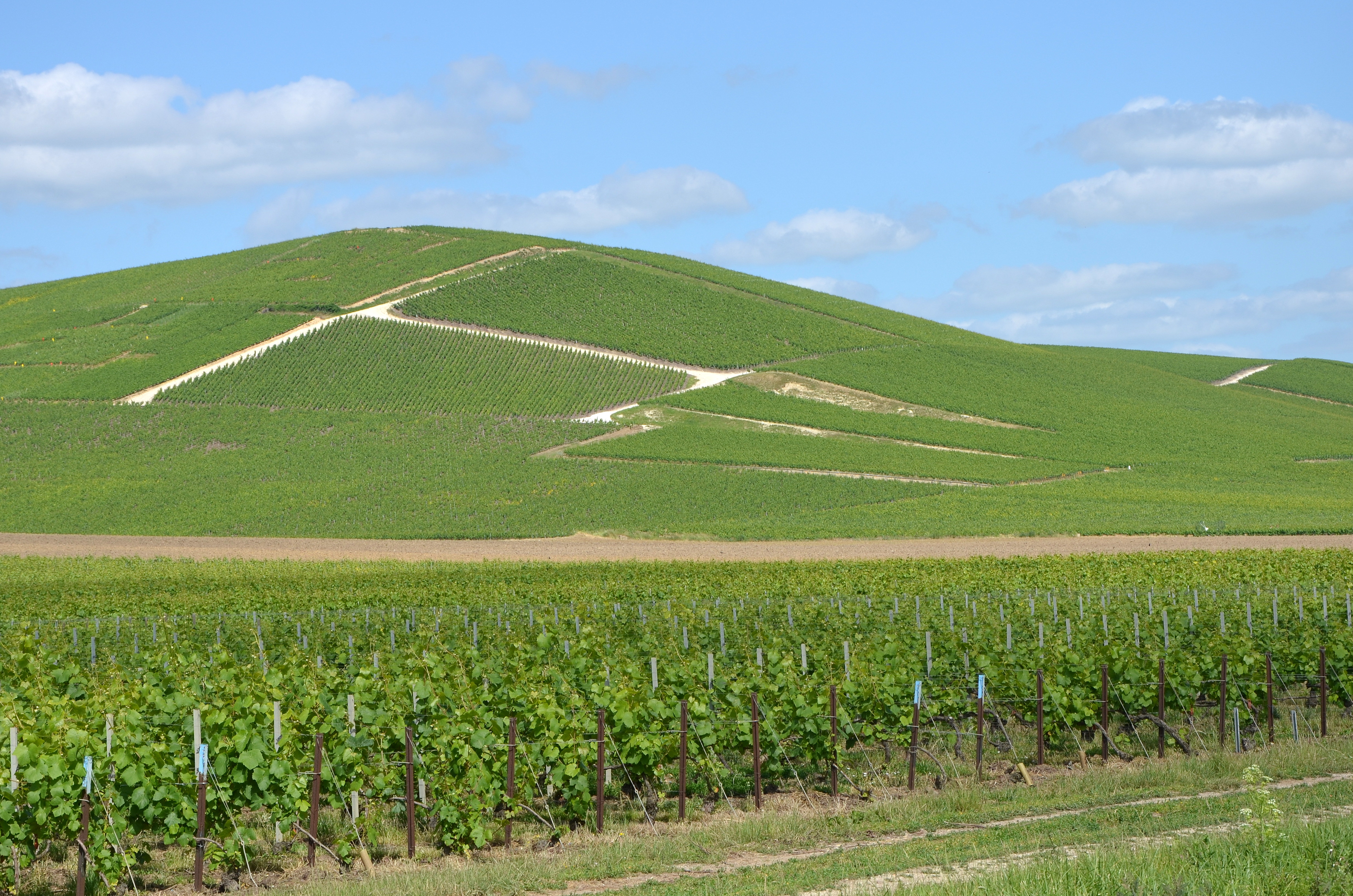 Vineyards of Champagne near Ay, Marne, France.